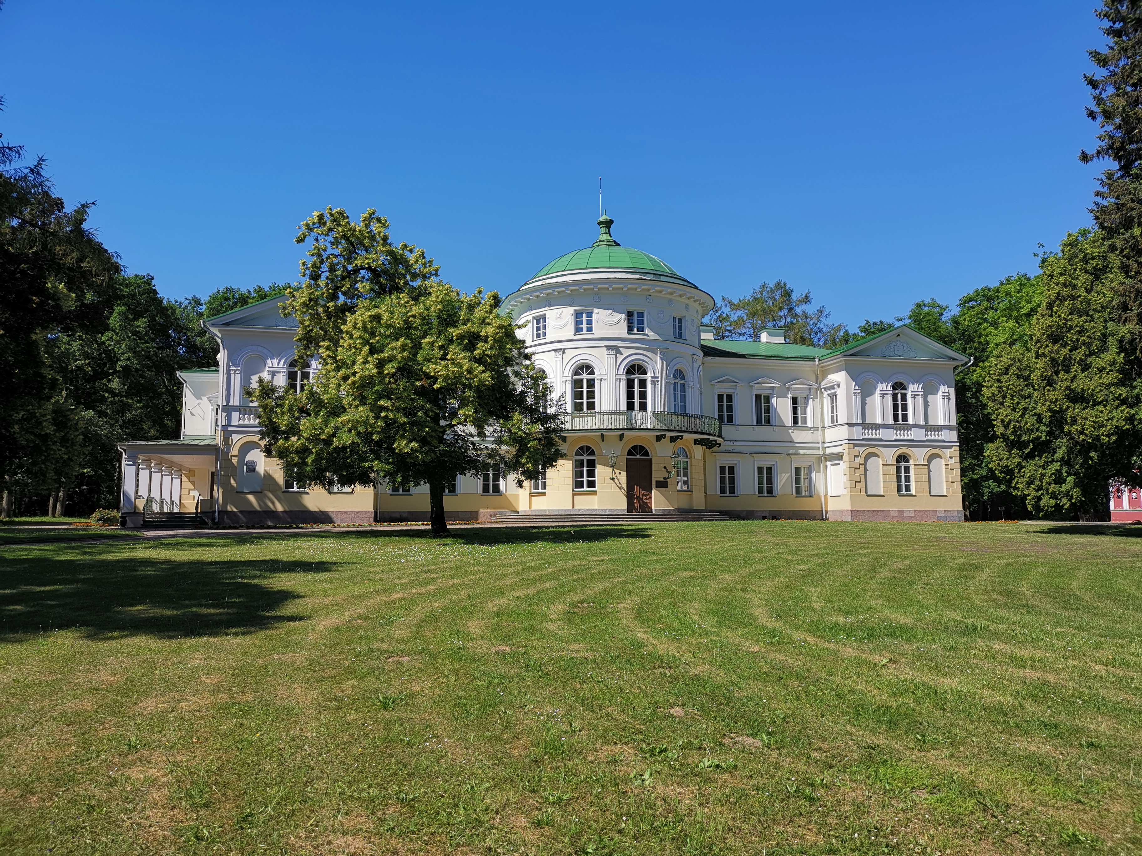 Baisogala manor (now administrative building of Institute of Animal) in Baisogala, Radviliškis district municipality, Lithuania